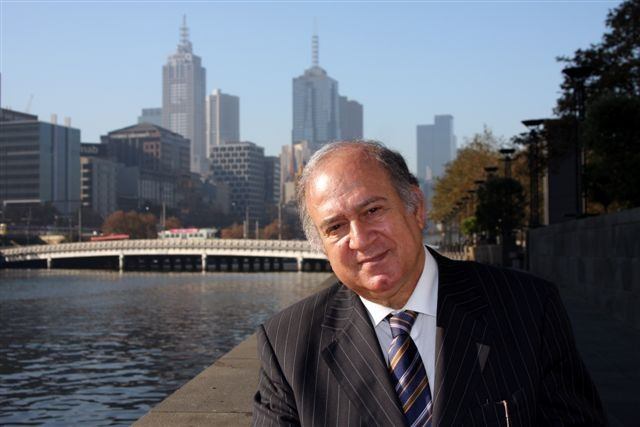 A picture of Tarek Heggy